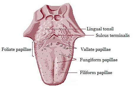 Based on Illu04 tongue.jpg Changed some annotations